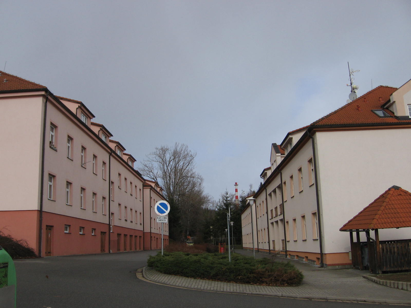 Former Barracks of the 62nd Motor Rifle Regiment in Prachatice.